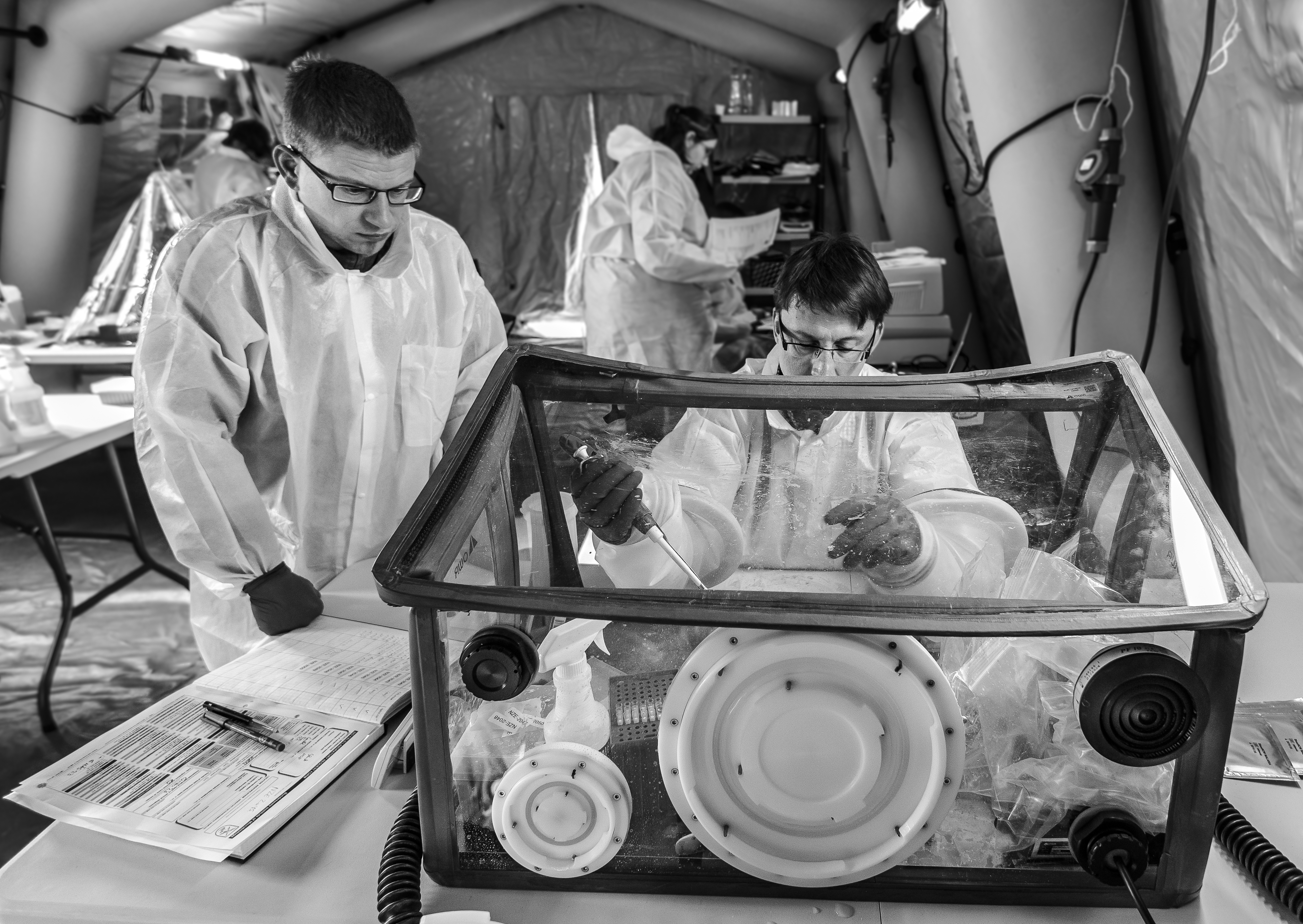 Deployment exercise of the B-LIFE mobile laboratory in Munich, on the site of the Institute of Microbiology of the Bundeswehr. This laboratory can be deployed quickly anywhere in the world in the event of a health crisis. It is equipped with state-of-the-art scientific equipment that makes it possible to carry out on the spot and at very short notice diagnoses that go beyond the routine of traditional laboratories.